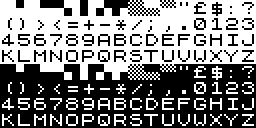 The Sinclair ZX81's character set as rendered by the machine itself in its system font. Scaled 2× for clarity. Includes all displayable values allowed in the video memory, known as the display file: 0–63 (0016–3F16) and the corresponding inverse video code points 128–191 (8016–BF16).